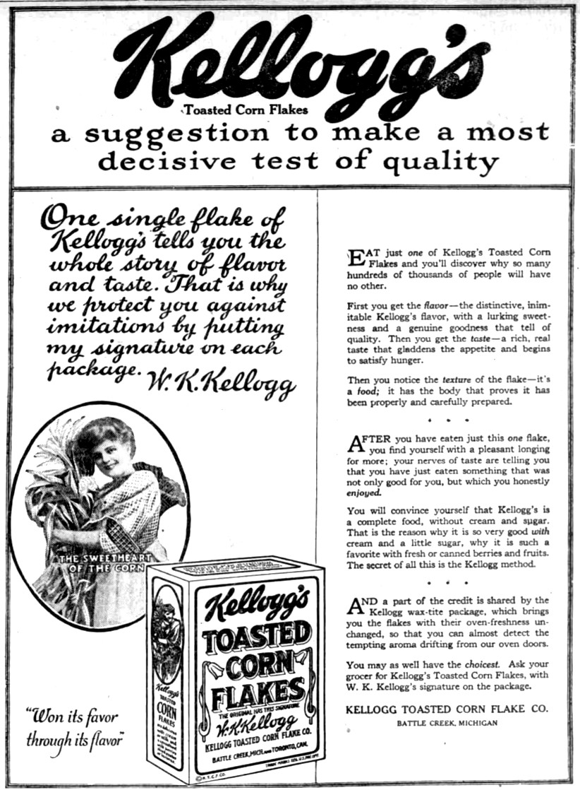 An advertisement for Kellogg's Toasted Corn Flakes from the August 23, 1919 edition of the Morning Oregonian.